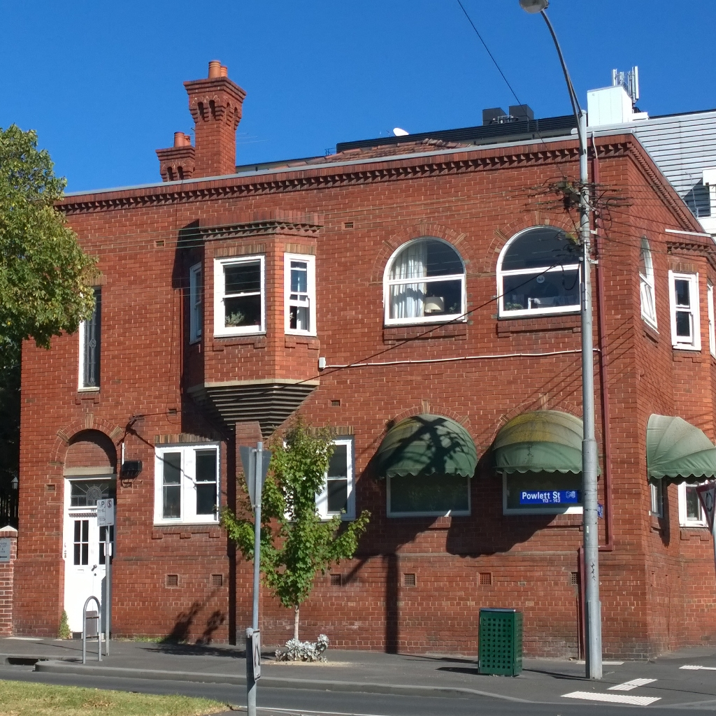 Early 20th Century building in East Melbourne